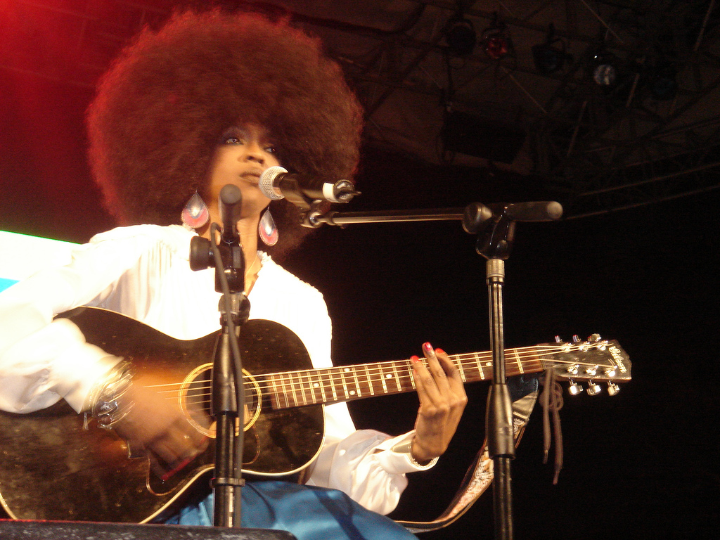 Lauryn Hill, performing in New York's Central Park in 2005